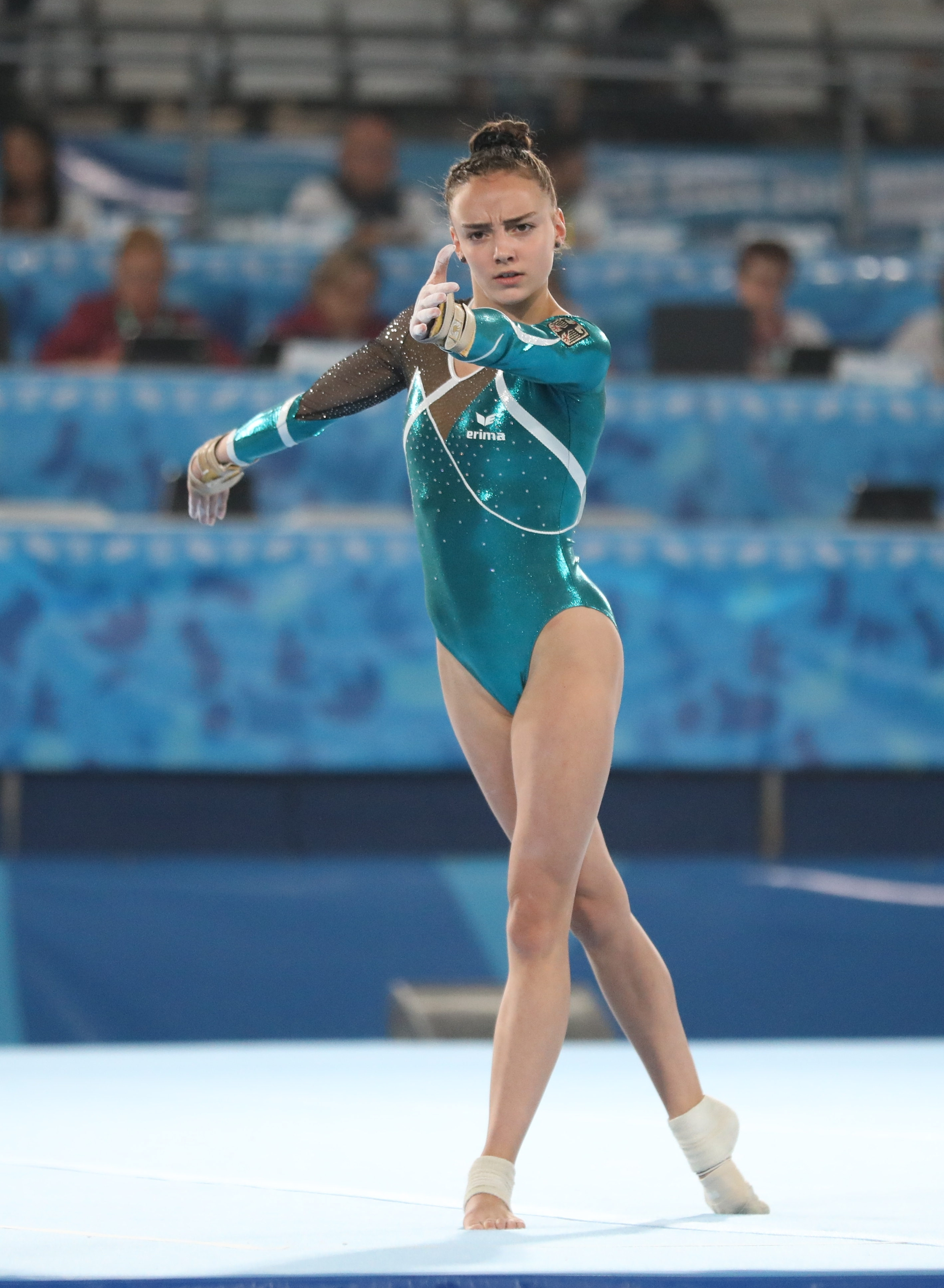 Floor all-around final of the girls' artistic gymnastics at the 2018 Summer Youth Olympics in Buenos Aires on 12 October 2018. Depicted: Lisa Zimmermann.